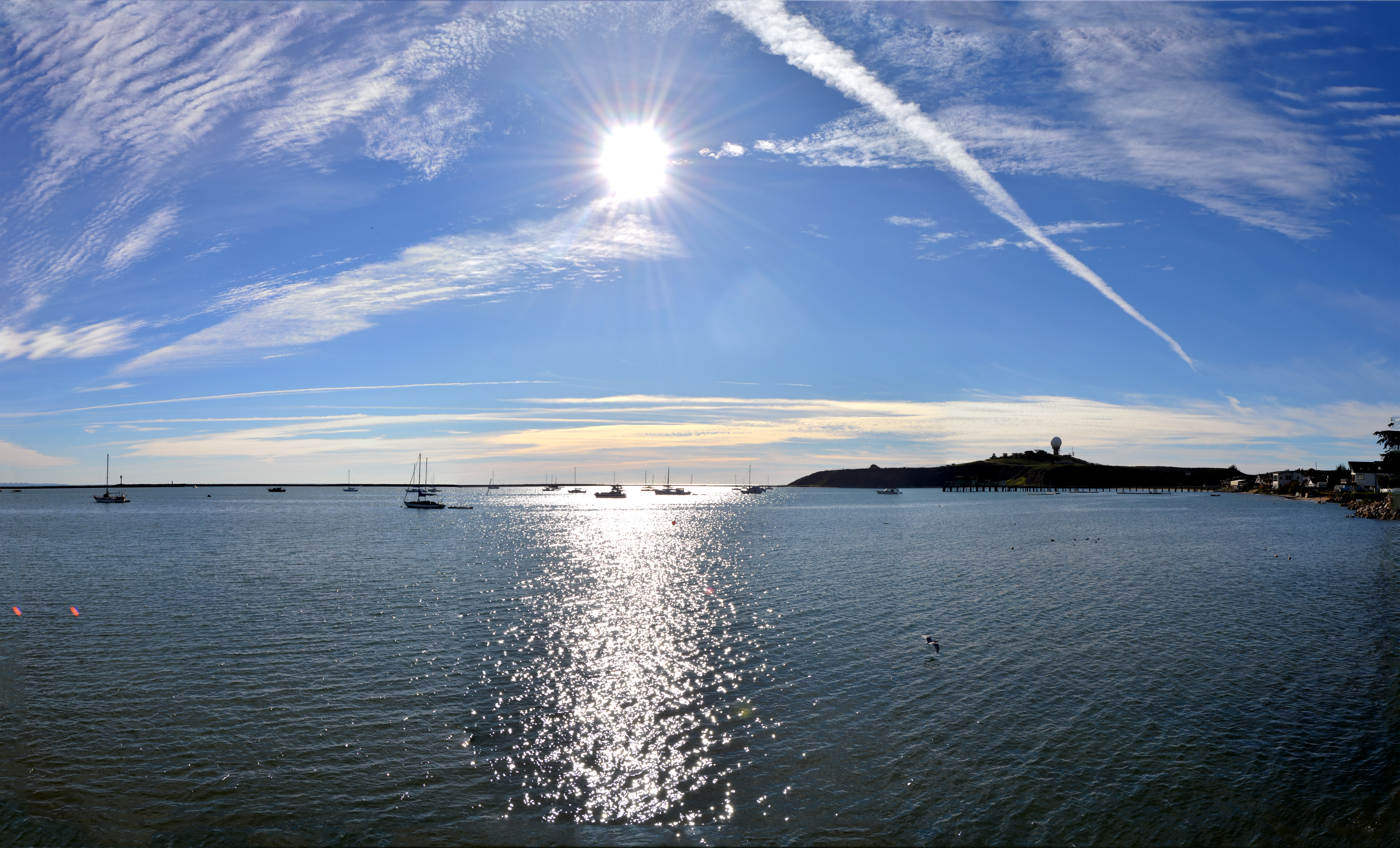 This westerly view shows most of Princeton Harbor and Pillar Point beyond two days after Christmas, 2014. As is often the case on clear winter days on the northern California coast, visibility is unlimited, temperatures are a moderate in the low 60's, and early rains have turned the coastal hillsides green.